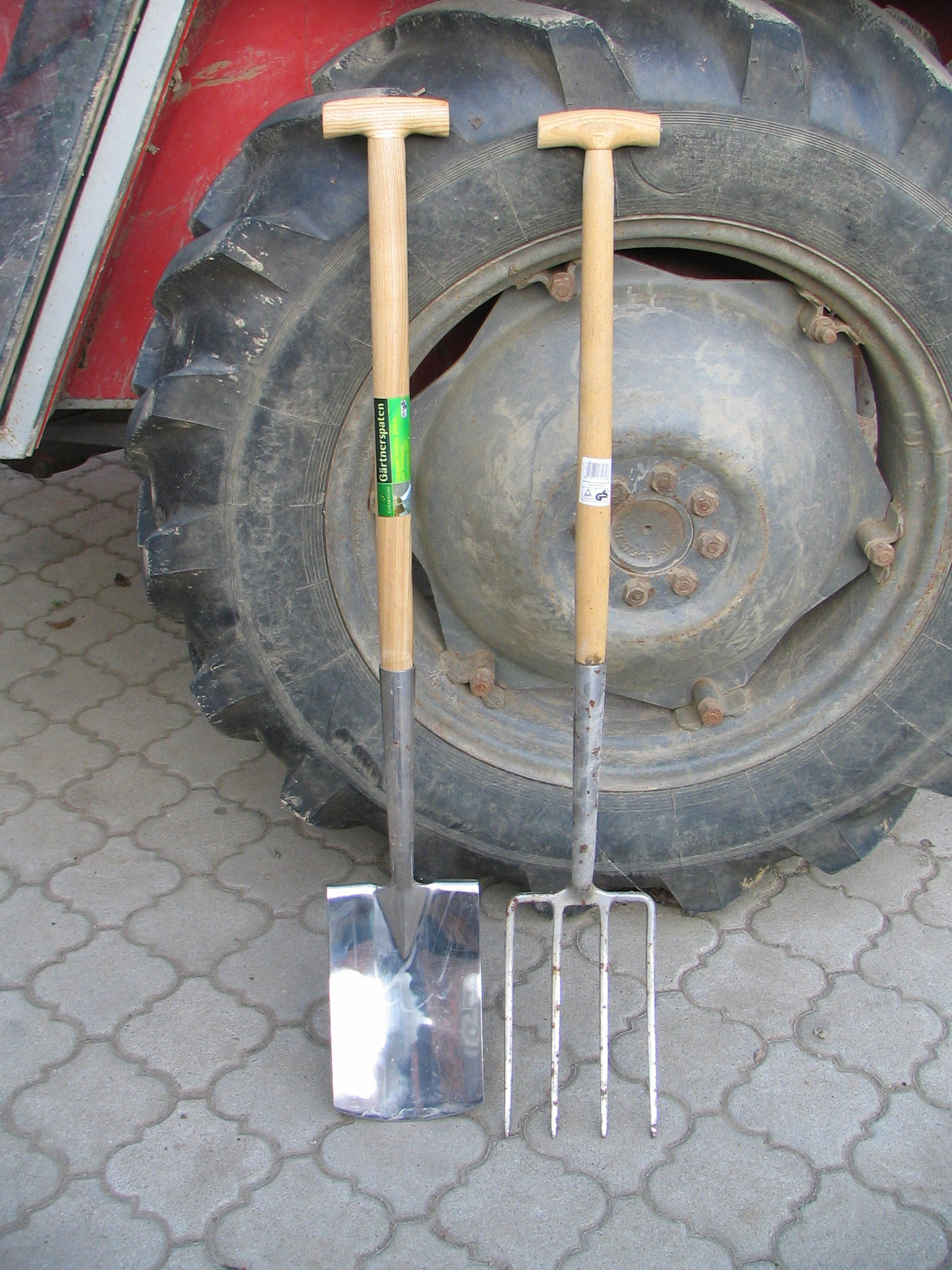 T - spade and garden fork Serbian nursery Zica Veliki Siljegovac (photo: Mihailo Grbić)